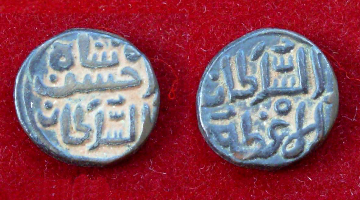 Founder of Sultanate of Madura (Madurai) Sultan Jalal al-Din Ahsan Shah (1333-1339), copper/billon coin. Image from my personal collection.